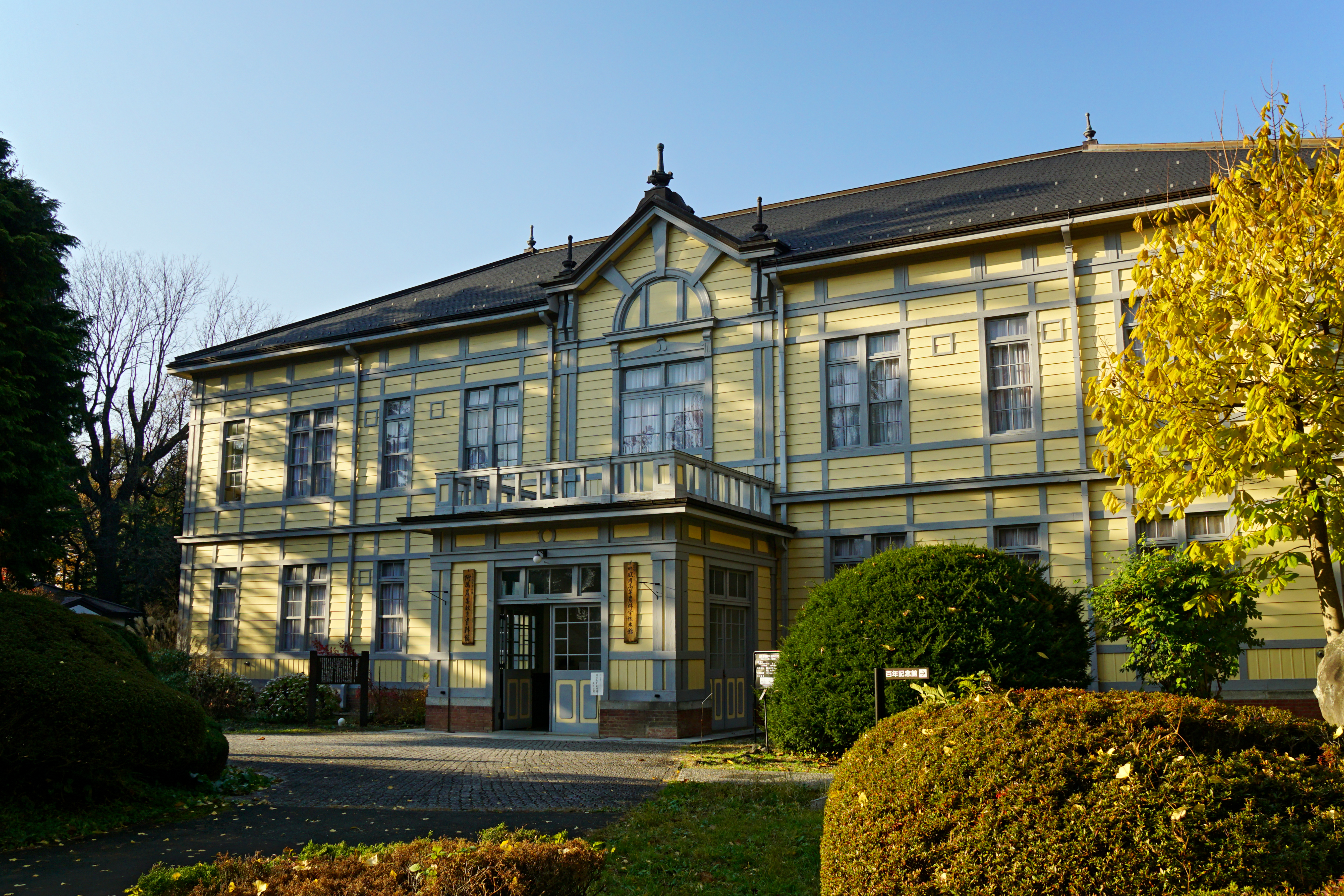 Iwate_University Historical_Museum_for_Agricultural_Education in Morioka, Iwate prefecture, Japan